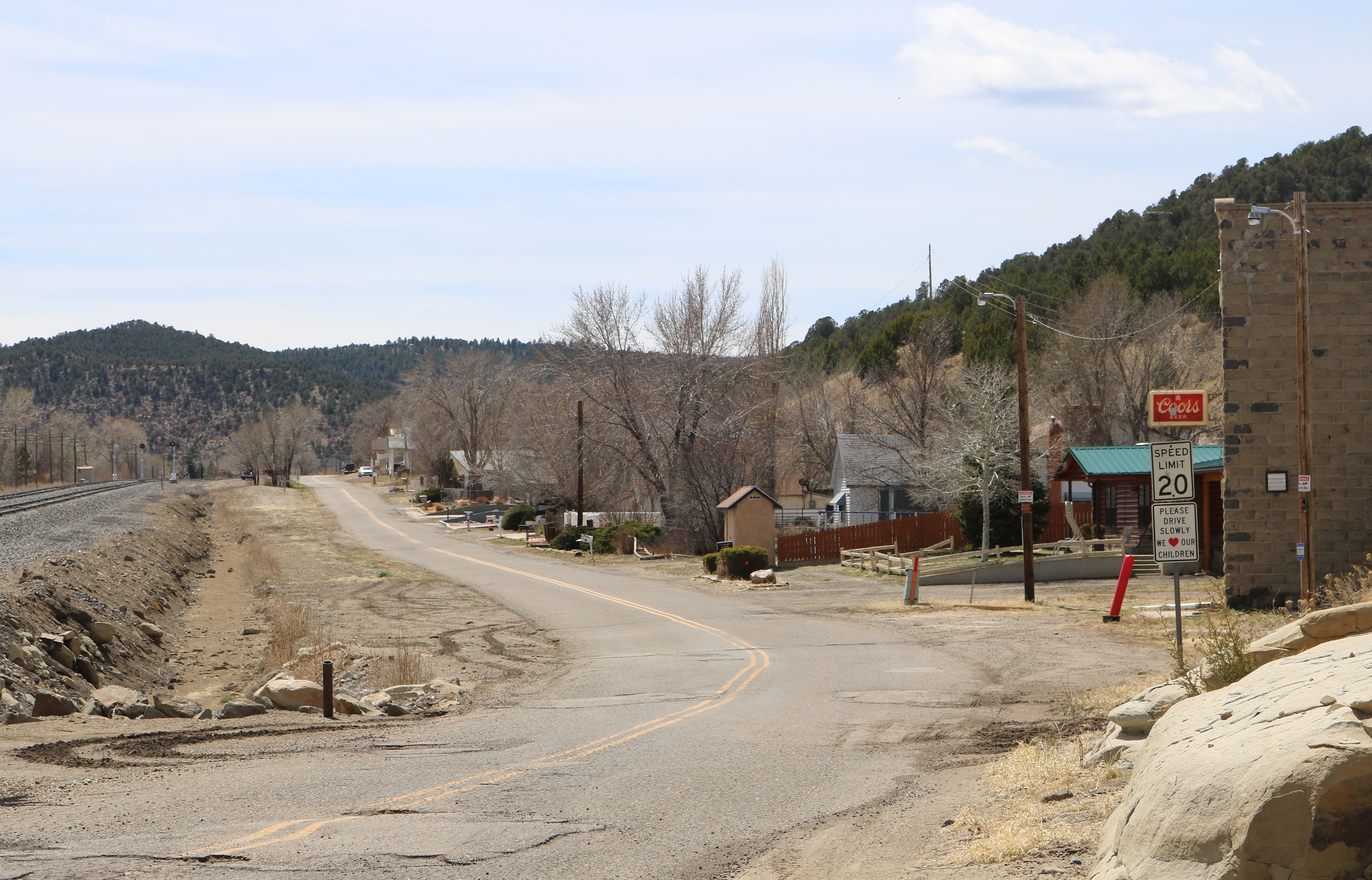 The town of Starkville, Colorado, in Las Animas County. The view shows East Railroad Avenue, the town's main street.